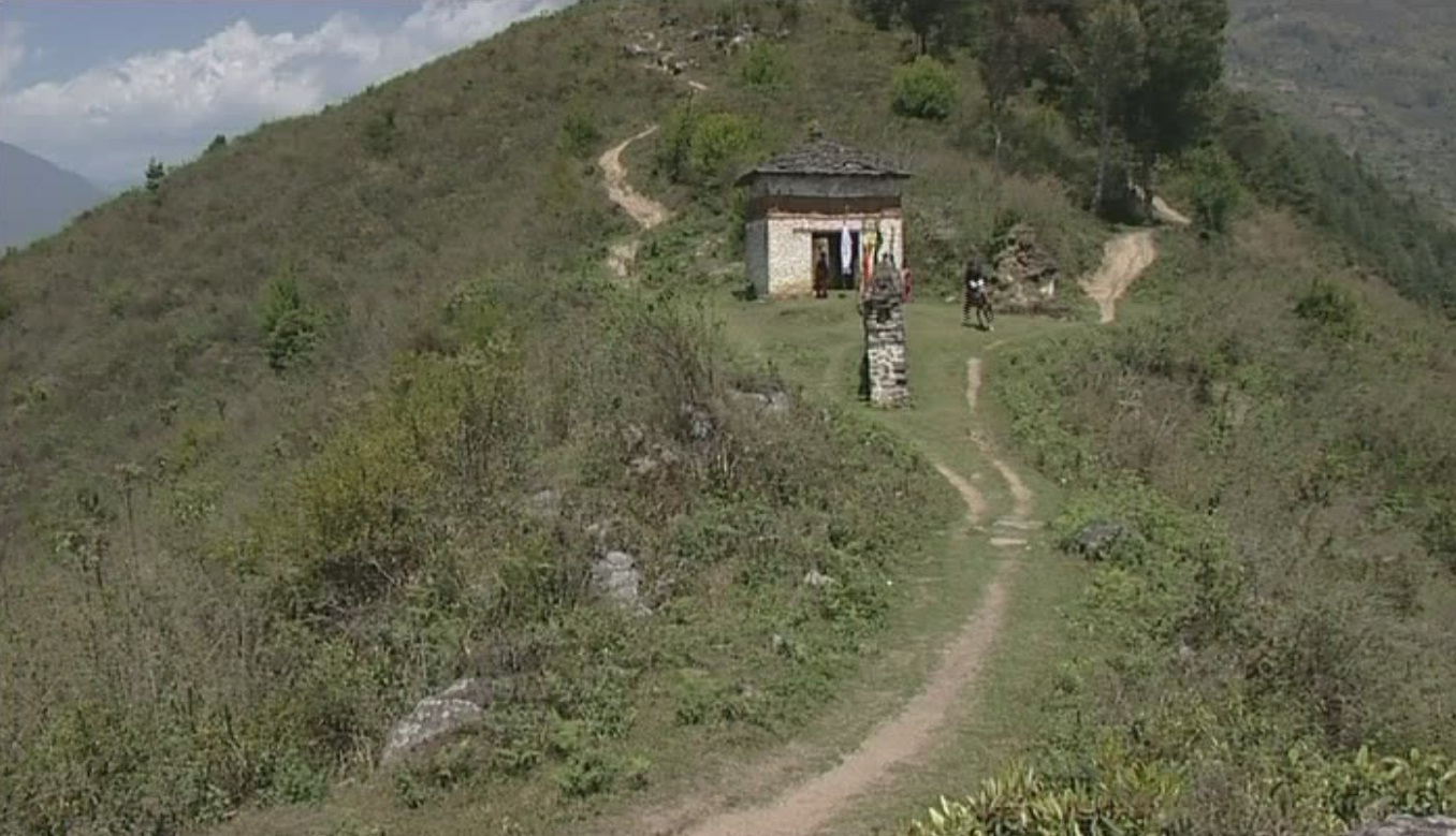 A main walk route to farmers of Northern Khamdang; Trashi Yangtse; Bhutan